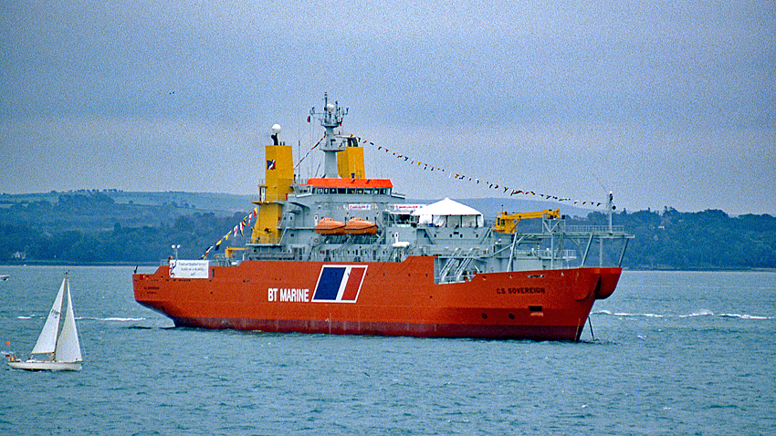 Cable Ship Sovereign at anchor in the Solent at the start of the Whitbread Round the World Race in 1993. Information about the vessel may be found at IMO 8918629.A ship can change name and flag state through time, but the IMO number remains the same through the hull's entire lifetime. As a result, it can be useful to identify a ship by using the IMO number. Scanned from a Fujichrome 35mm slide.